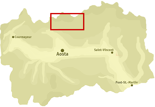 Position of the valley Valpelline